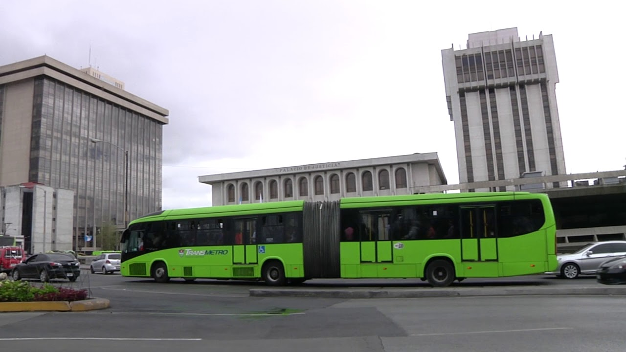 BRT on street of zone 1 Guatemala City